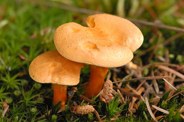 Hygrophoropsis aurantiaca from Commanster, Belgium. The determination of the species shown in this picture has been verified.